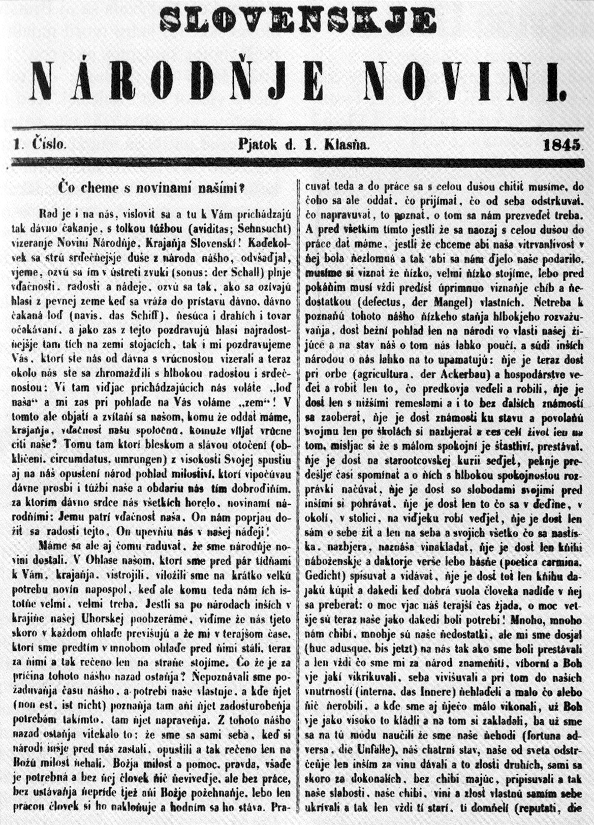 The first number (title-page) "Slovak national newspaper" (1845) – fundator and publisher (1845 – 1848) Ľudovít Štúr (1813 – 1856)